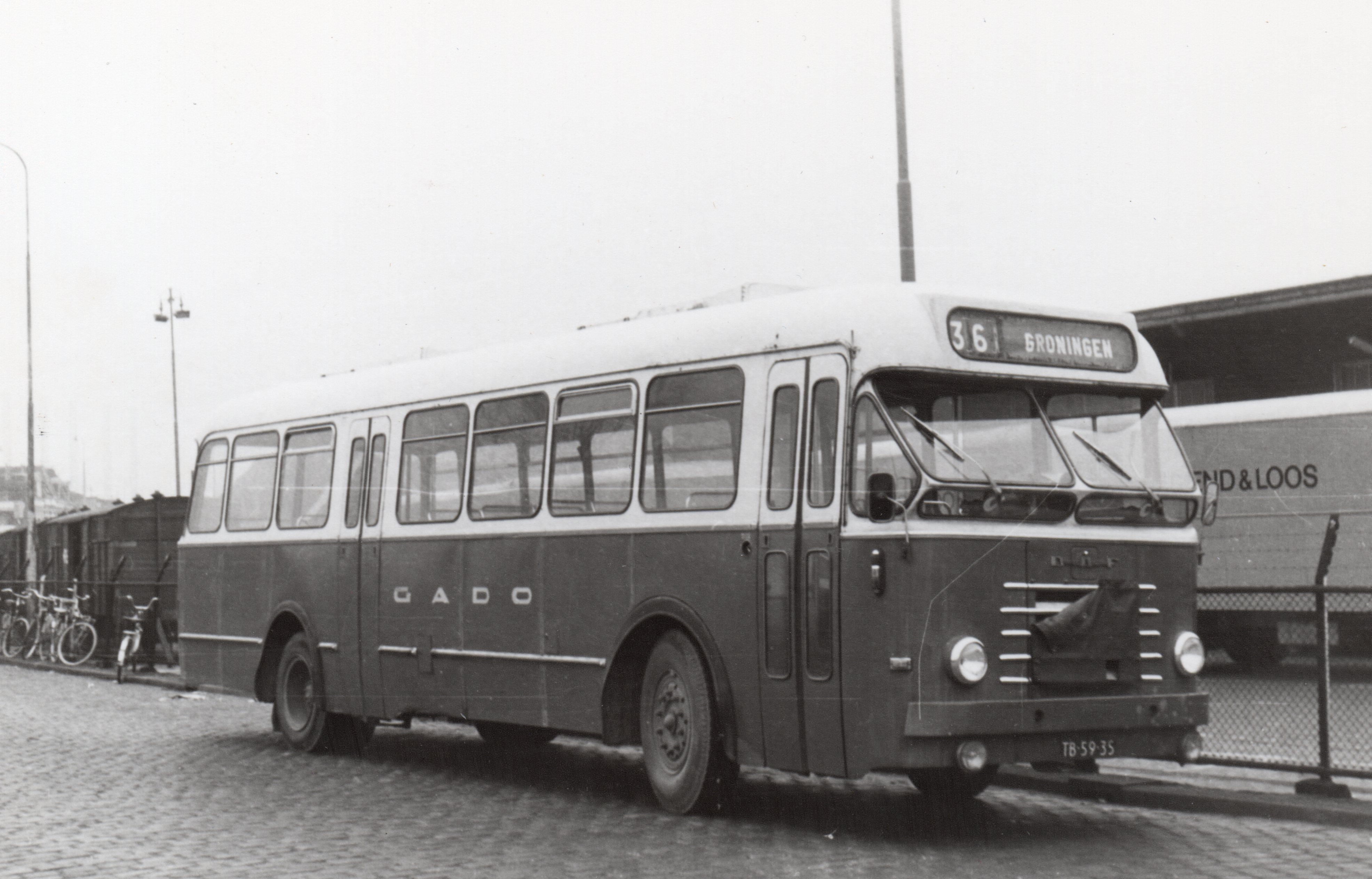 GADO-bus 6511, DAF TB100/Hainje, bouwjaar 1959, op het Autobusstation te Groningen in 1969 (NIET 1974, bus werd al in oktober 1972 afgevoerd